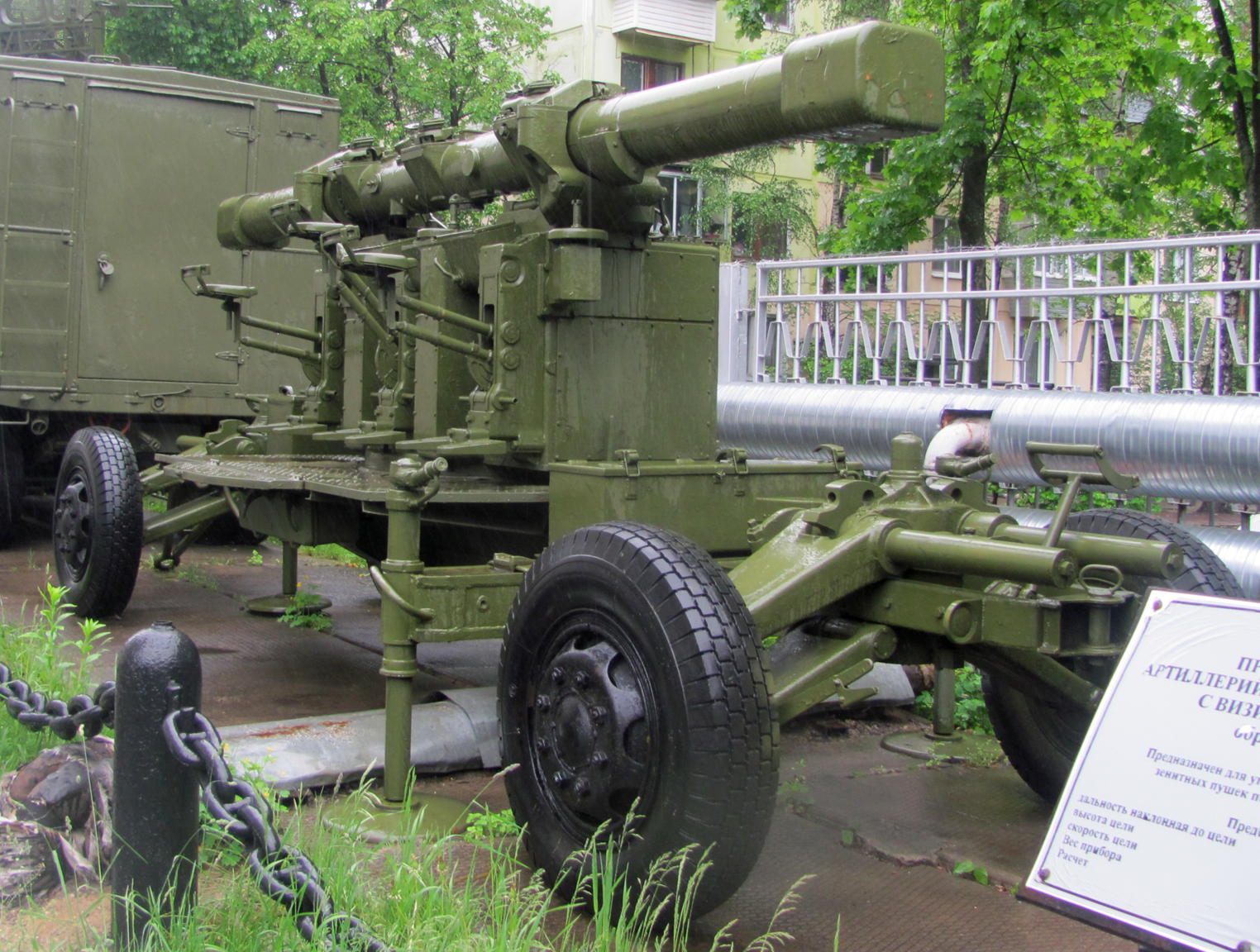 Air-defence fire control device PUAZO-5